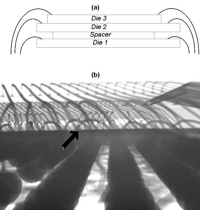 Xray image